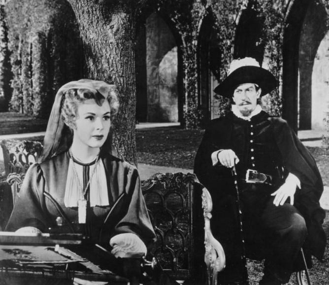 Mala Powers & José Ferrer in Cyrano de Bergerac - cropped screenshot